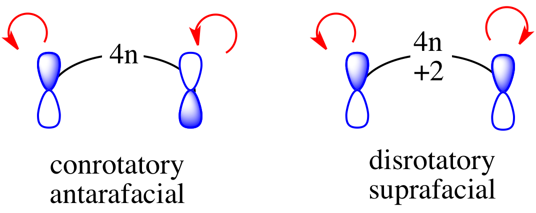 FMO-picture of selection rules of electrocyclic reactions.